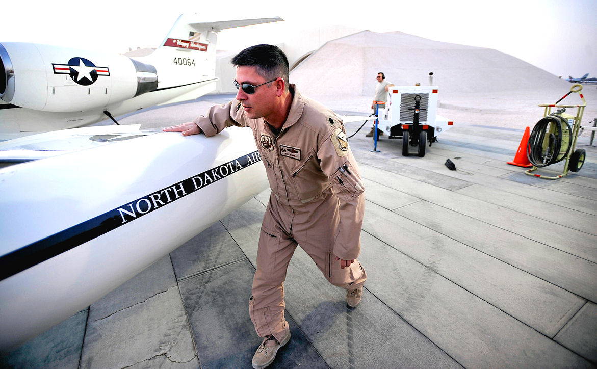 U.S. Air Force Lt. Col. Rick Omang, a C-21 pilot assigned to the 379th Expeditionary Operations Group, conducts a pre-flight inspection prior to conducting combat operations over Southwest Asia, July 26. Lt. Col. Omang is deployed from the 177th Airlift Squadron, North Dakota Air National Guard. (Photo by Staff Sgt. Shawn Weismiller, U.S. Air Forces Central Public Affairs)